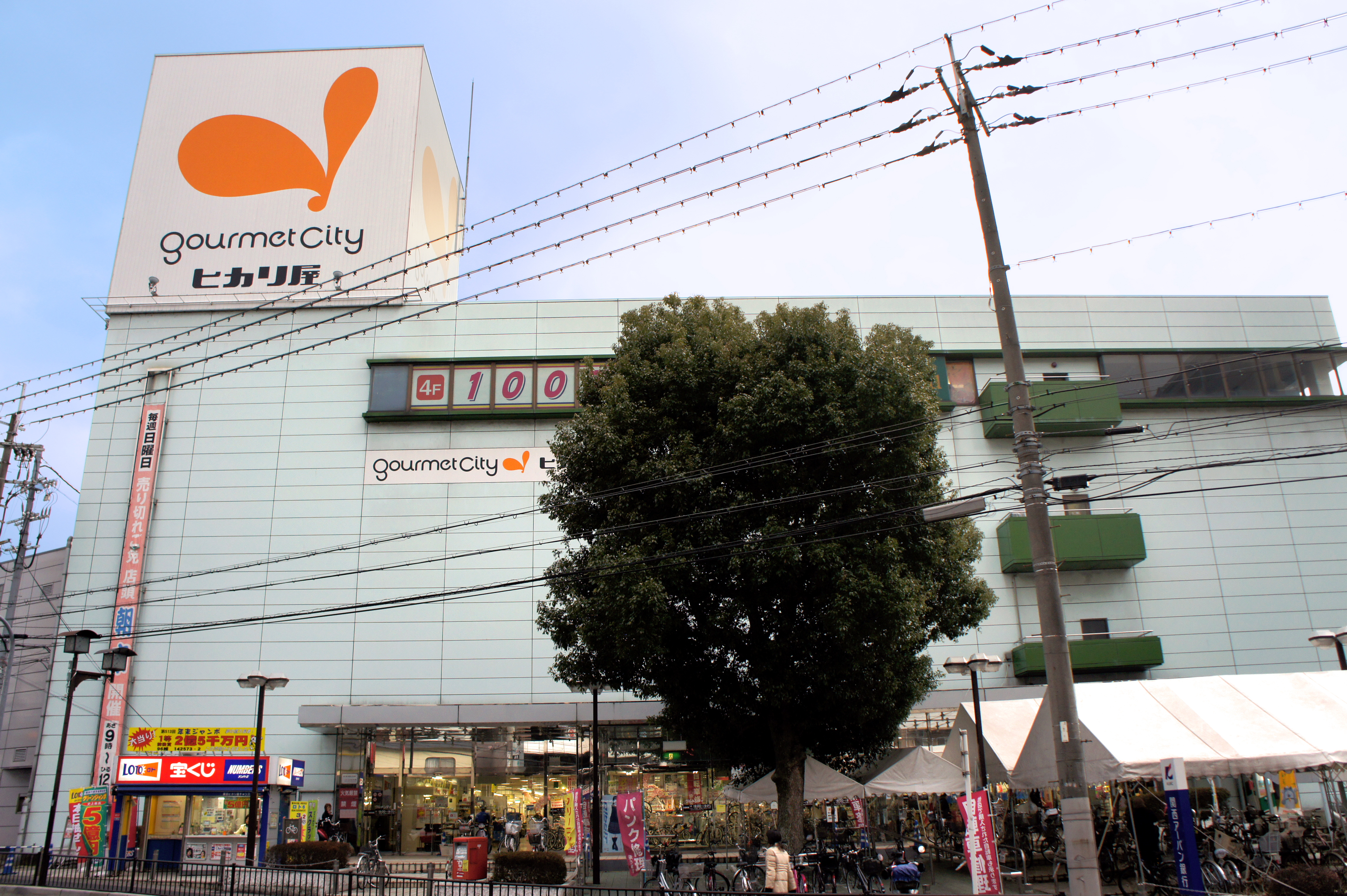 Gourmetcity hikariya Seta, 1-3-1 Ichiriyama Otsu-City Shiga Japan.